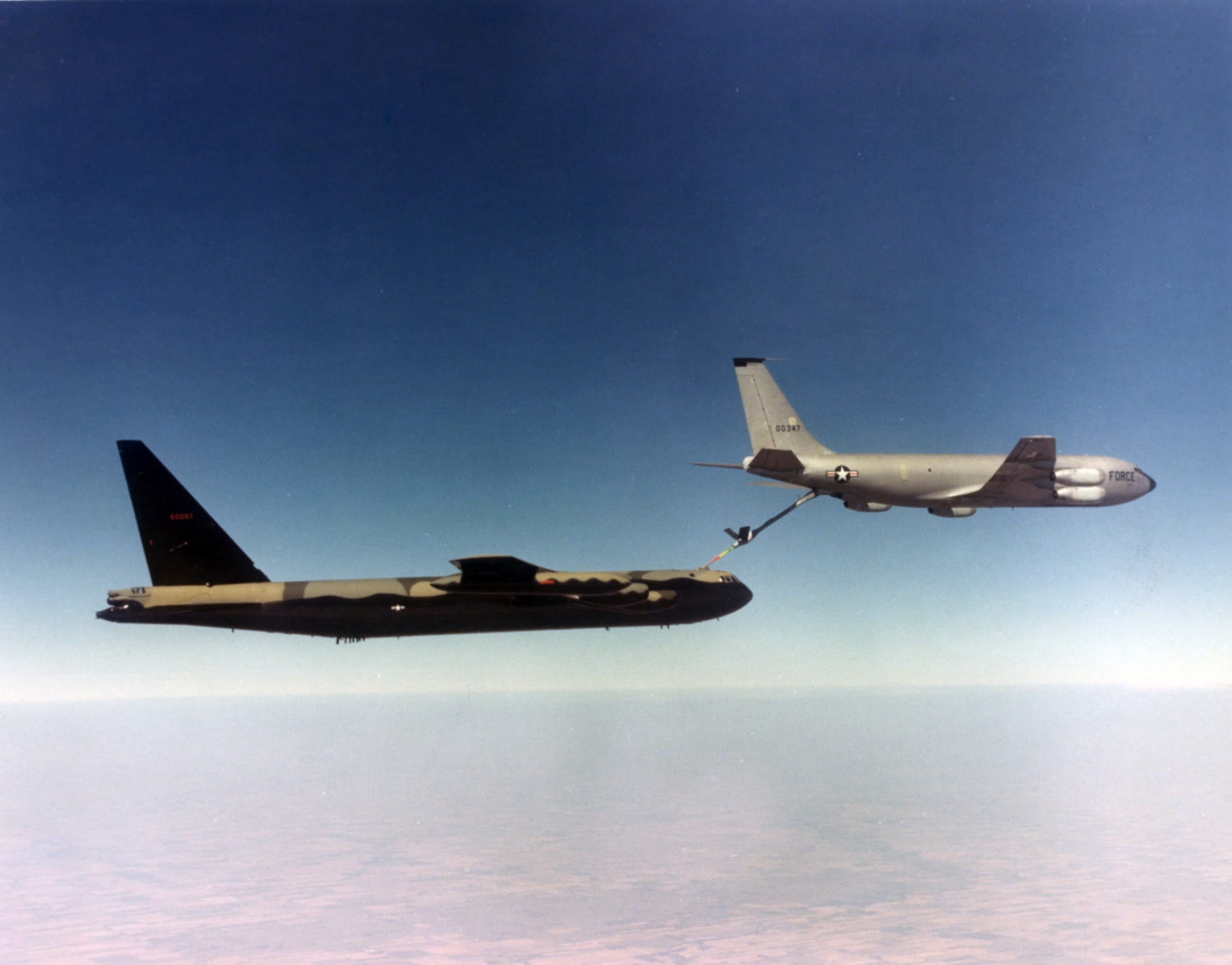 A U.S. Air Force Boeing B-52D-60-BO Stratofortress (s/n 55-0097) is refueled by a Boeing KC-135A Stratotanker (s/n 60-0347) on its way from Vietnam to Andersen Air Force Base, Guam, during the Vietnam War. The B-52D 55-0097 sustained crash damage at U-Tapao Air Base, Thailand on 15 October 1972 and was scrapped in February 1973.